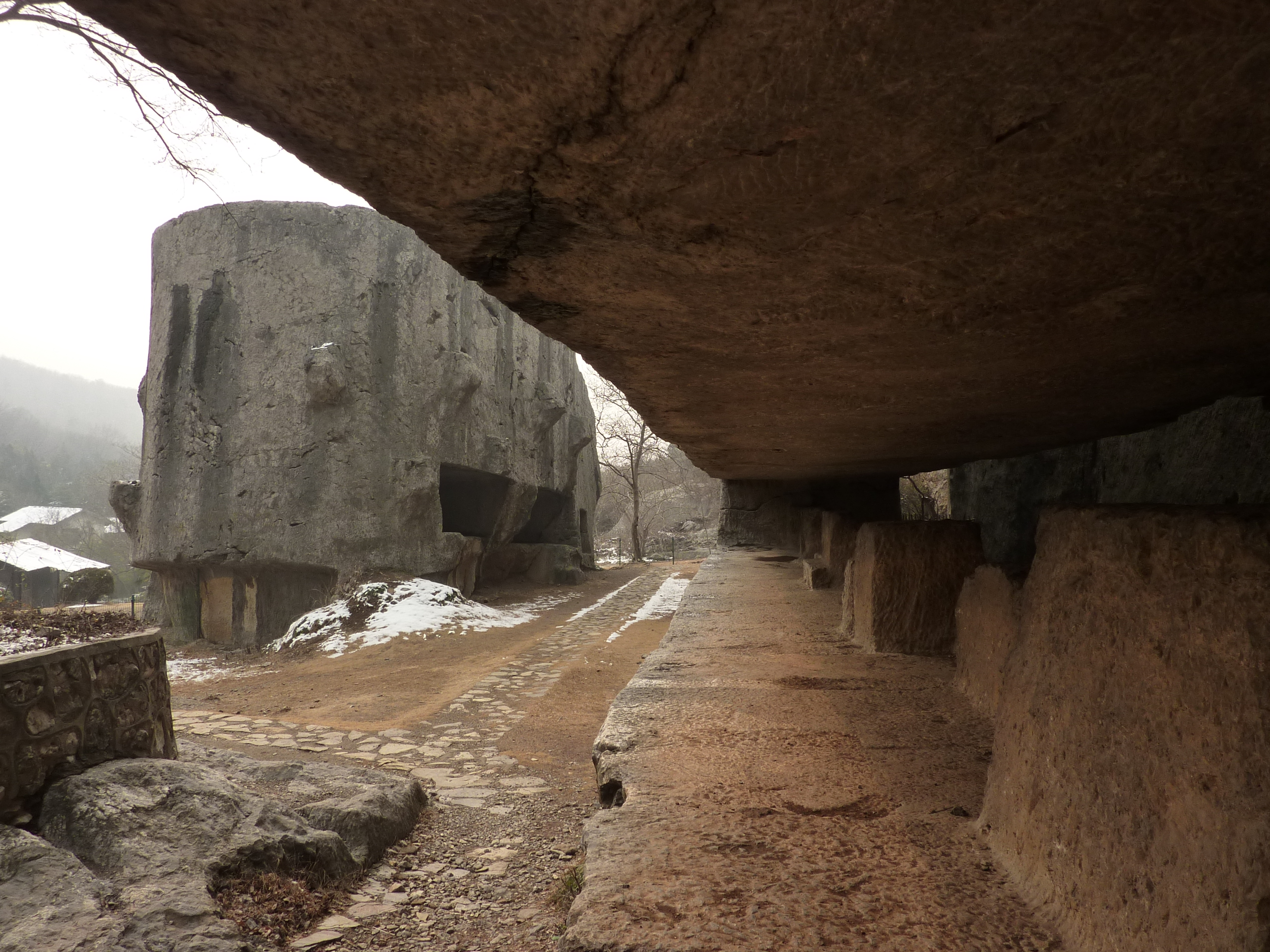 The unfinished "Monument Head" (center) and part of the Monument Body (right), sitting still attached to the living rock in the middle of the north-eastern pit of the Yangshan Quarry, now nicely landscaped. (The "head" is the top part of the stele, which, in a finished stele would probably have been fashioned into a dragon design).